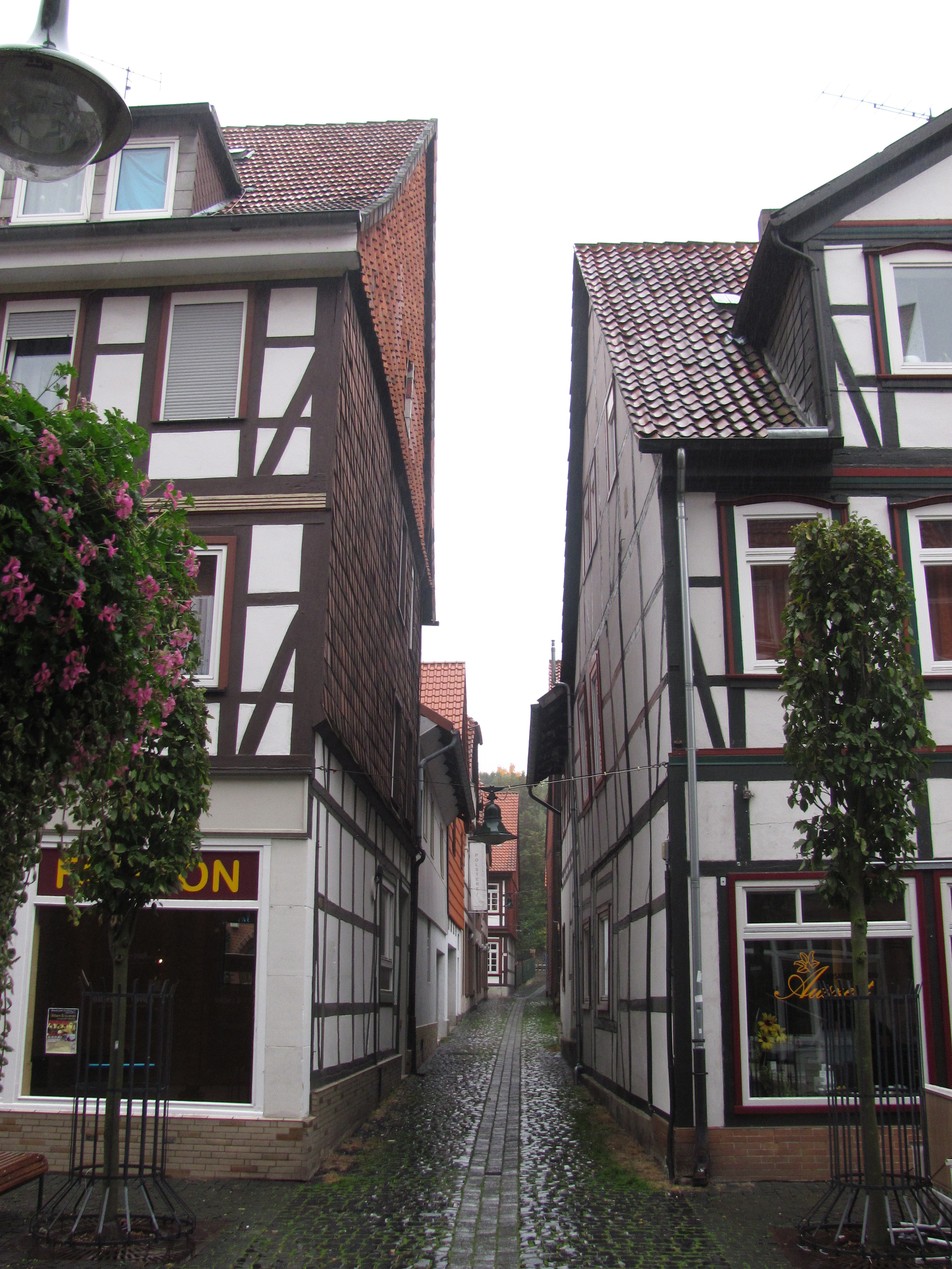 "Kuhgasse" Lane, Northeim, Lower Saxony, Germany